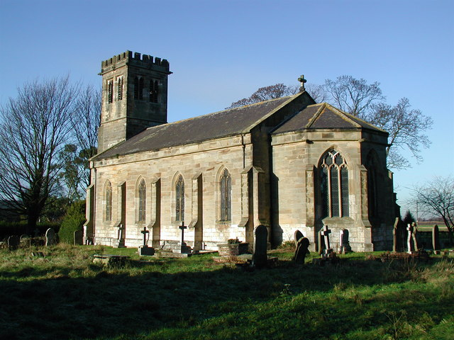 Holy Trinity Church, Blacktoft, East Riding of Yorkshire, England. Looking northwest across the churchyard from behind The Cottage on Blacktoft Lane.